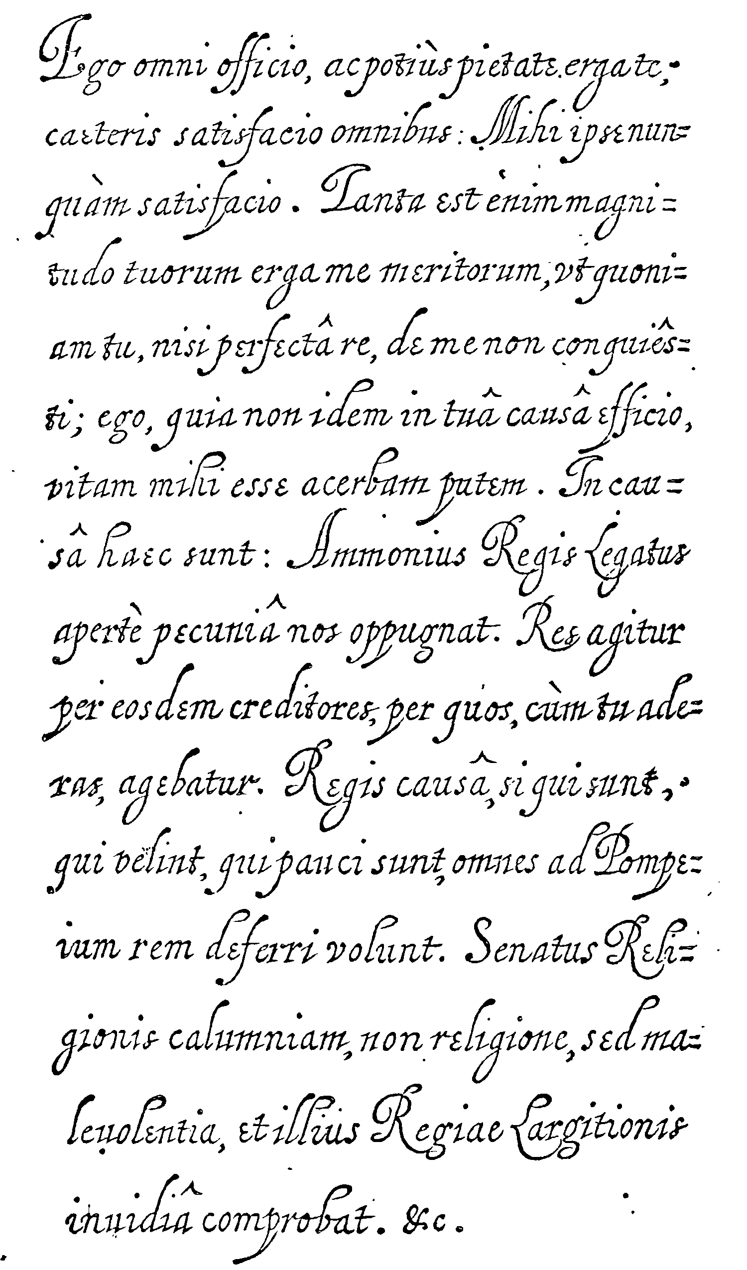 Spartan Letter / Epistle of Cicero example from De Augmentis Scientiarum